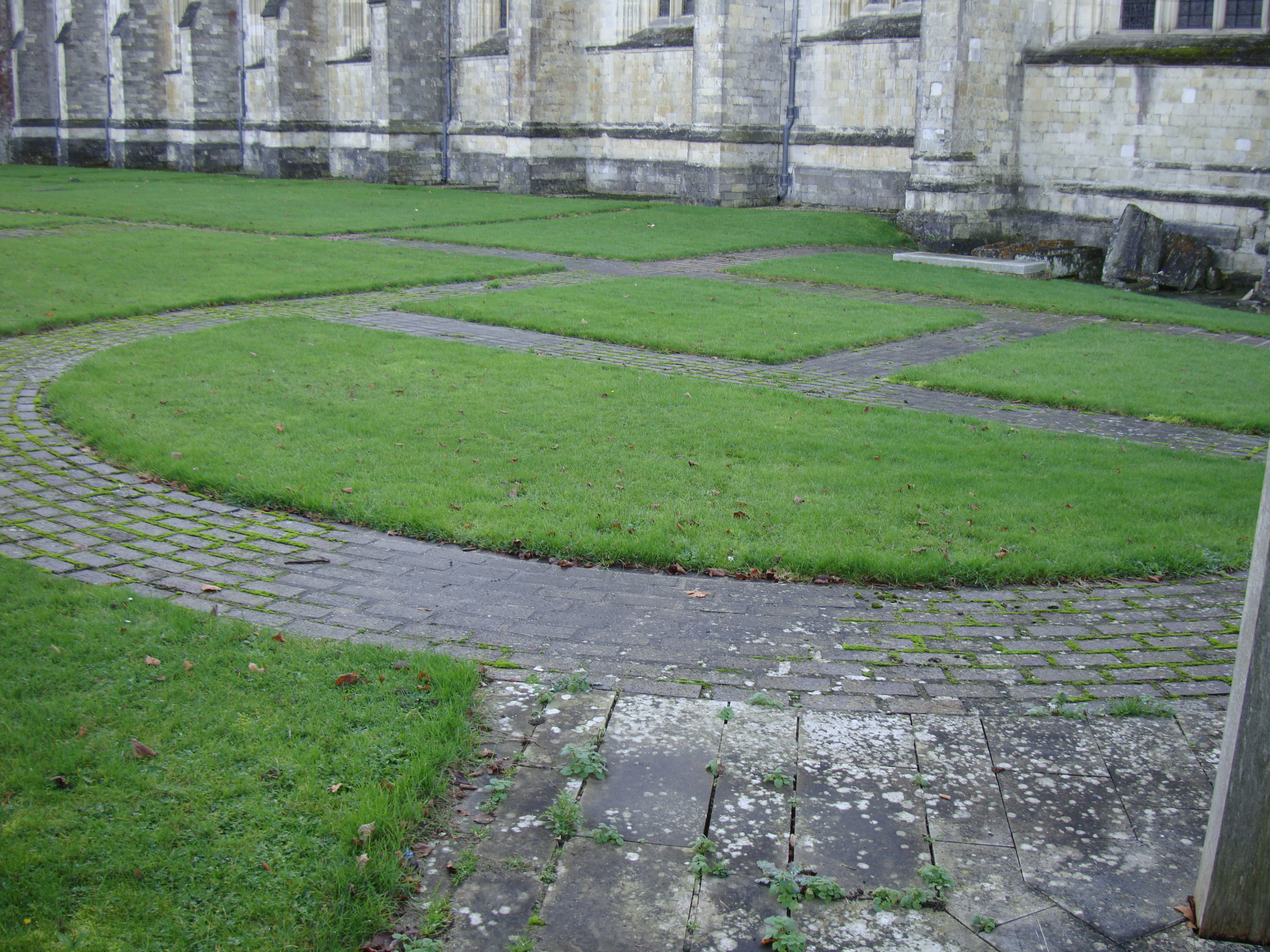 The layout of the Old Minster, Winchester, Hampshire, England